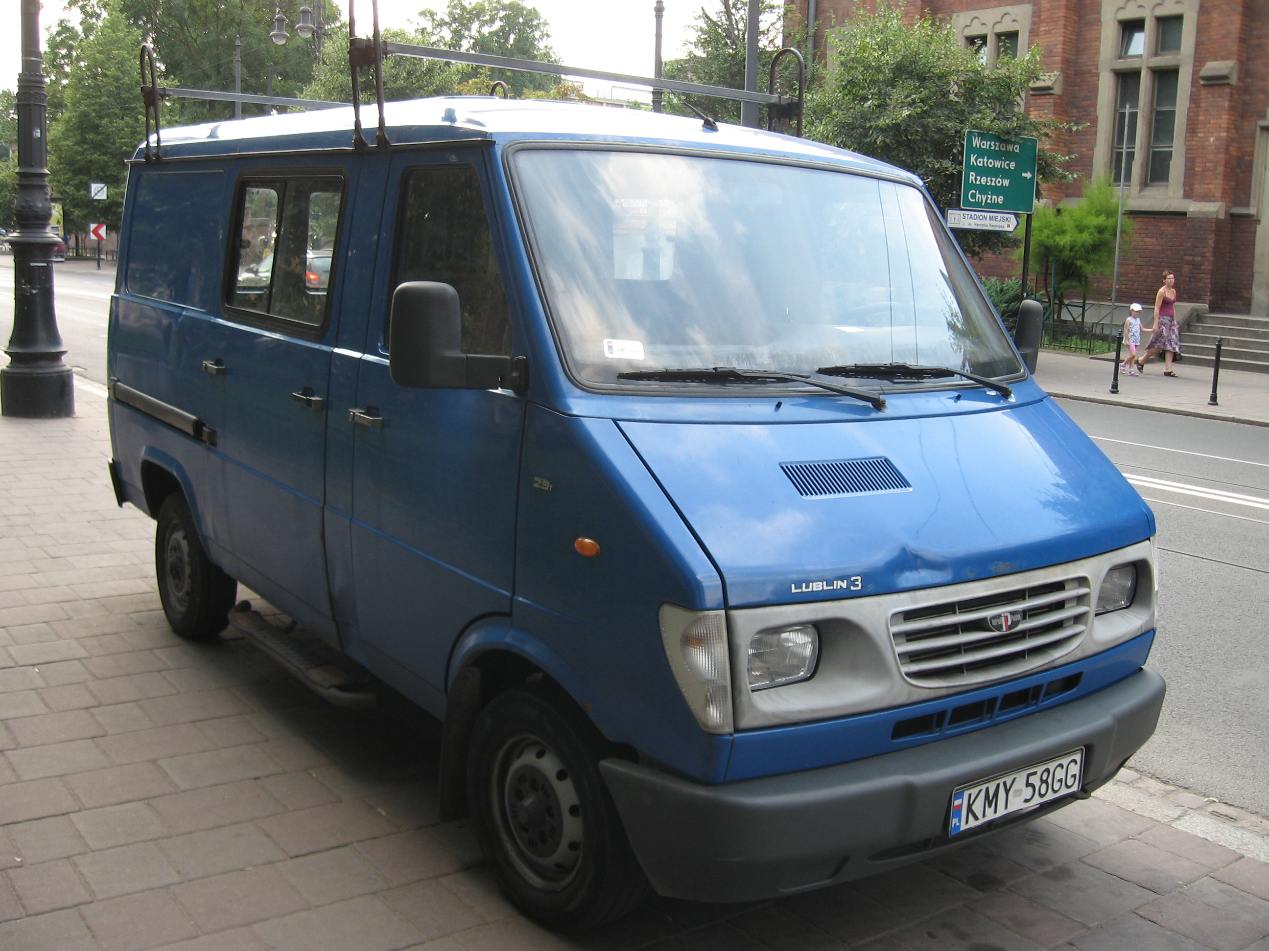 Intrall Lublin 3 on Piłsudskiego avenue in Kraków, Poland.